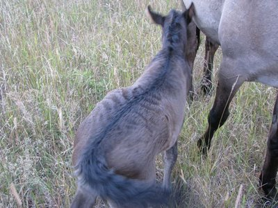 A partbred grullo Sorraia colt exhibiting zebra type stripes formed by the lay pattern of the newborn foal hair coat. The dorsal and leg stripes remain, but the lay pattern stripes disappears after several days or weeks when the hair is fully fluffed.